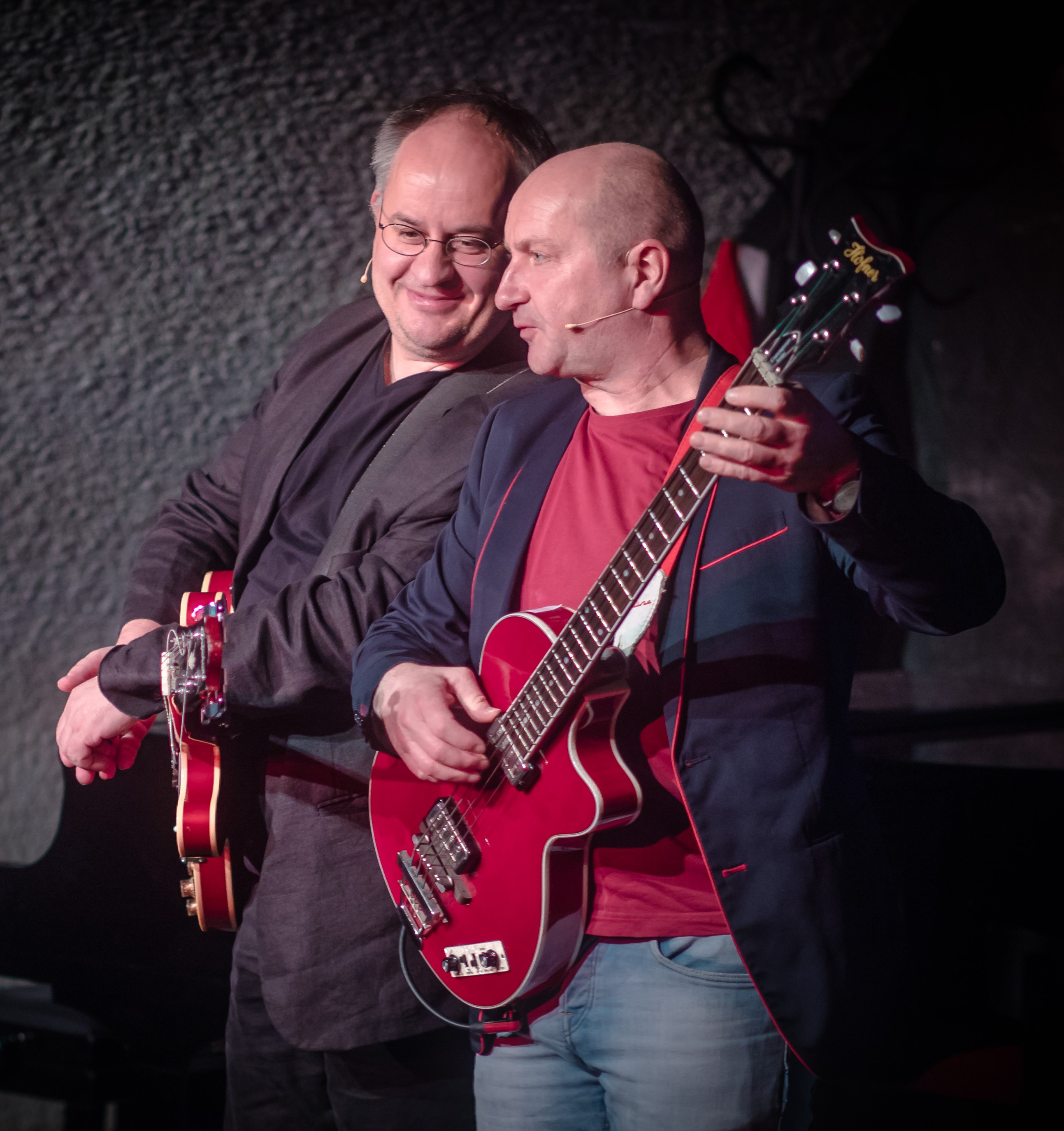 at Kleinkunstkreis Donaueschingen, Germany